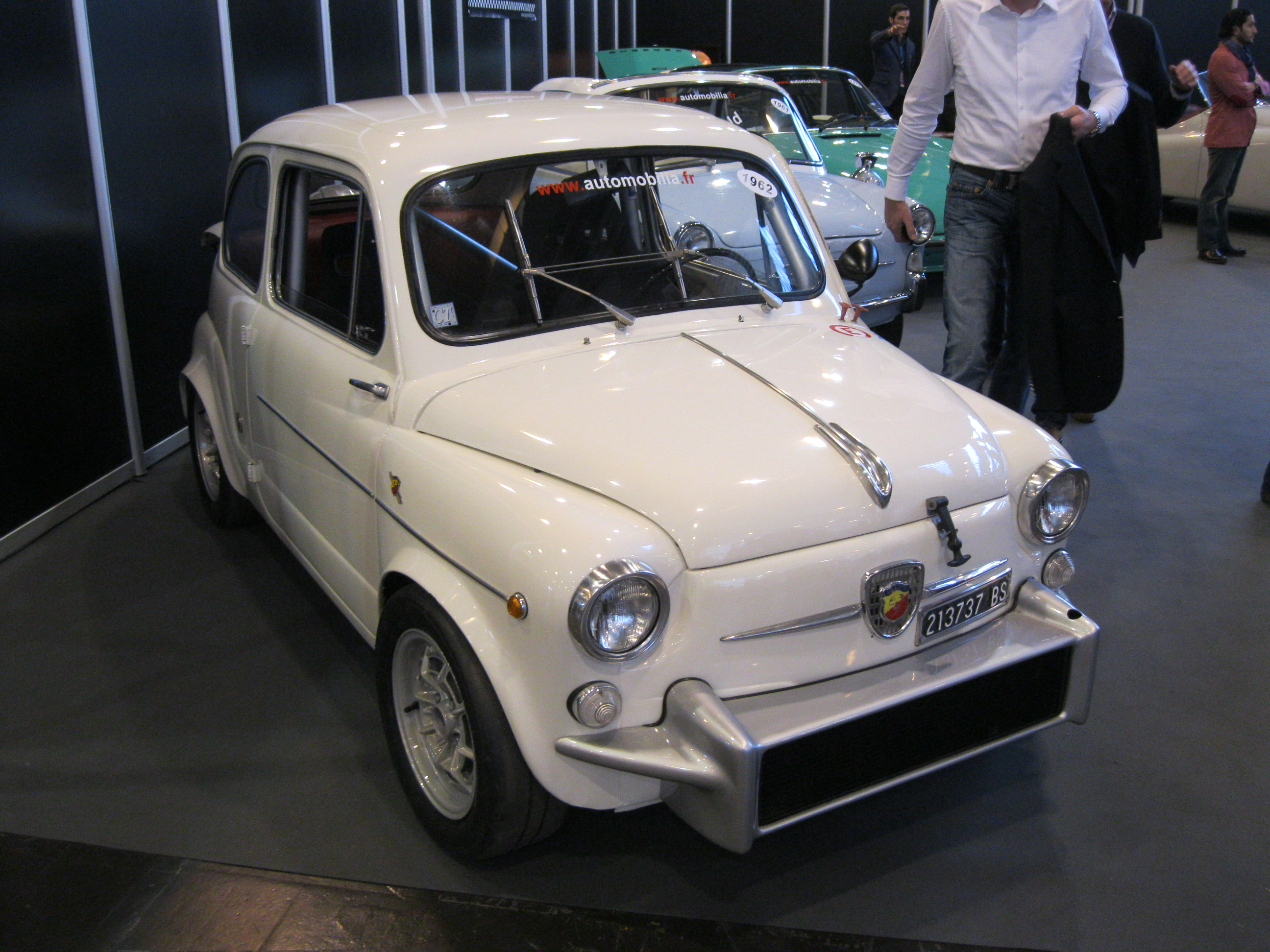 Race-ready Fiat 600 derivative spotted at Techno Classica Essen in March 2012.